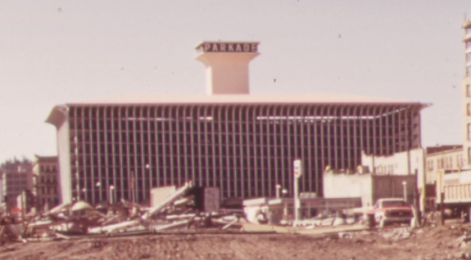 Parkade Plaza in in May 1973, during preperation for the 1974 World's Fair.